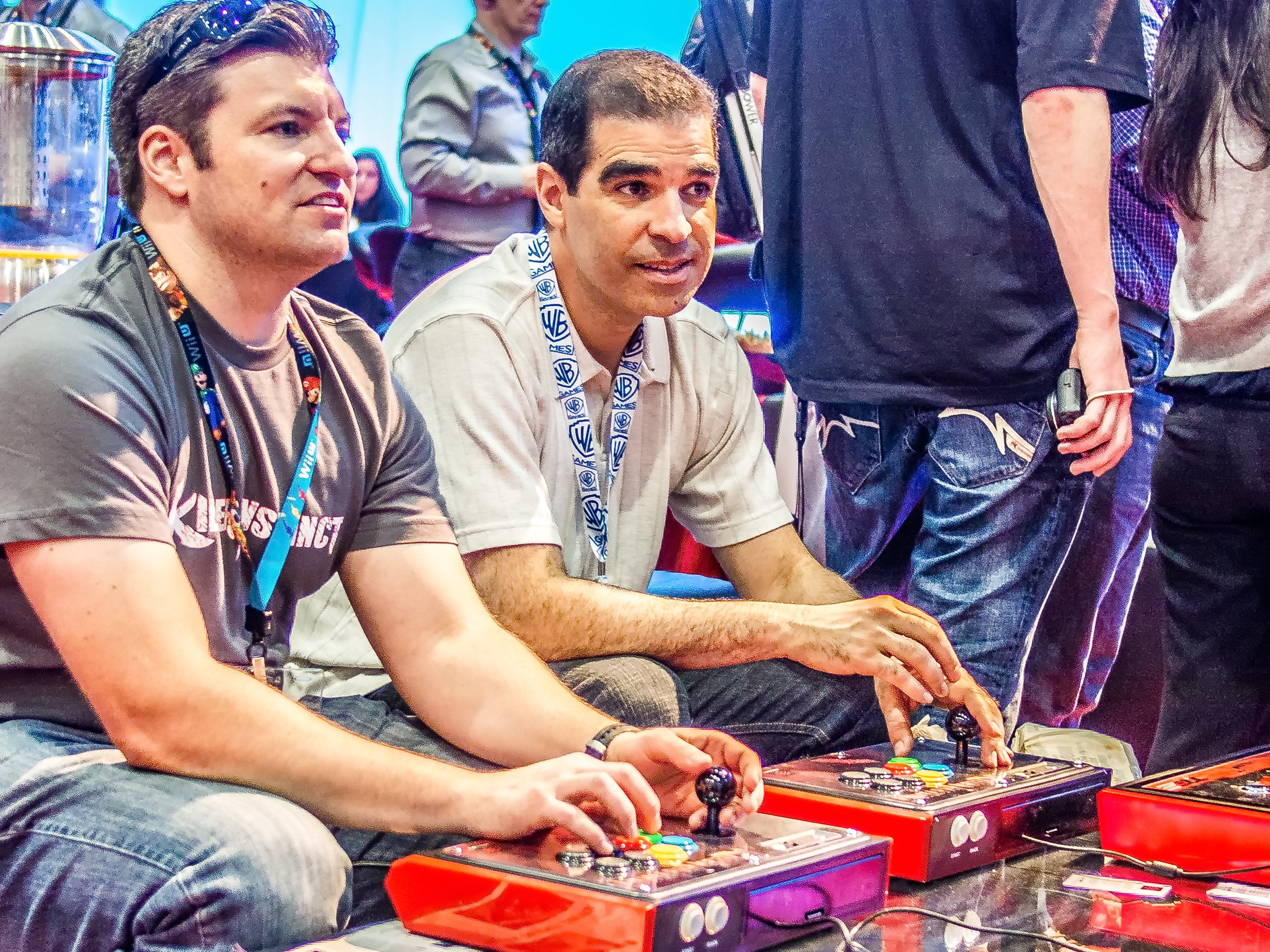 Taken on June 12, 2013 Los Angeles, California, US Olympus E-PL5